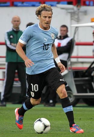 Diego Forlán